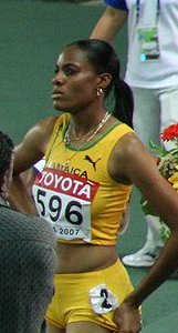 World Athletics Championships 2007 in Osaka - Kaliese Spencer after the women's 400 metres hurdles semifinal